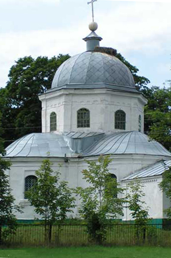 Holy Trinity Church, Novi Mlini, Ukraine